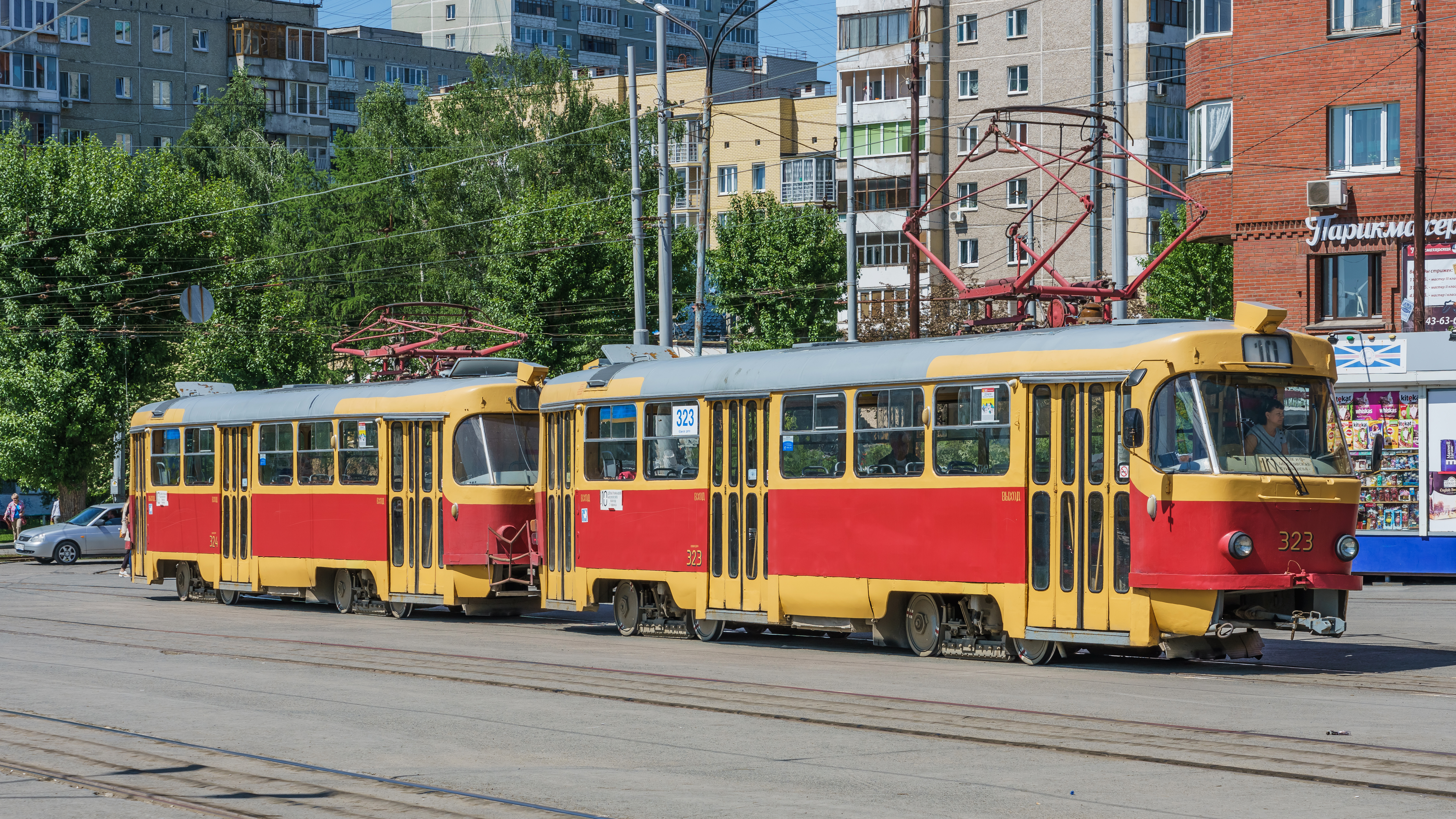 Tatra T3 tram on the loop near Mayakovsky Park in Ekaterinburg, Russia